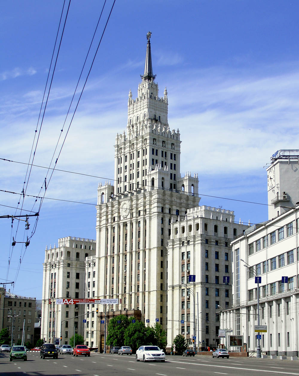 Tower by Alexey Dushkin, Moscow, Reg Gates Square